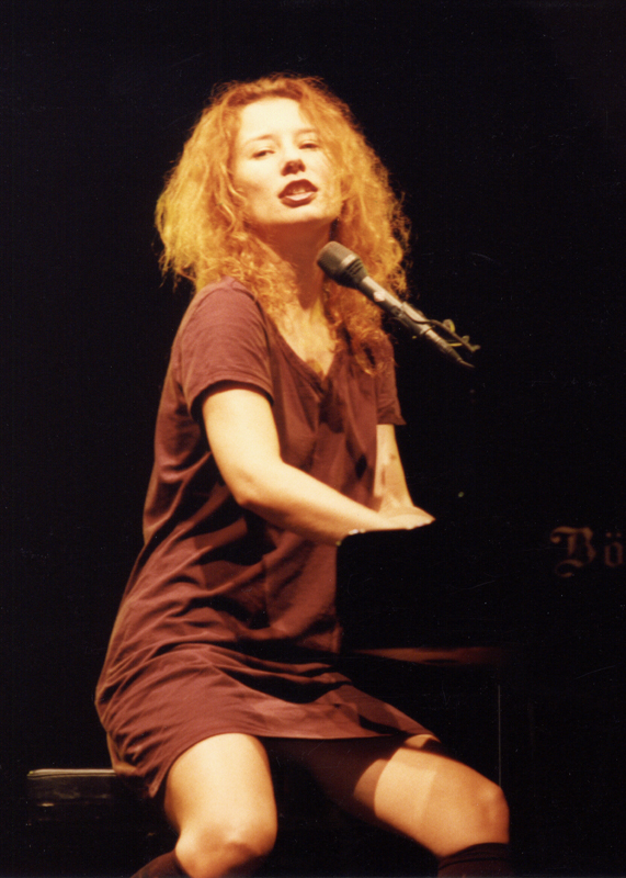 Tori Amos performing in concert during her Dew Drop Inn Tour. Photograph taken at the Robinson Center Music Hall in Little Rock, Arkansas, USA.Tori Amos